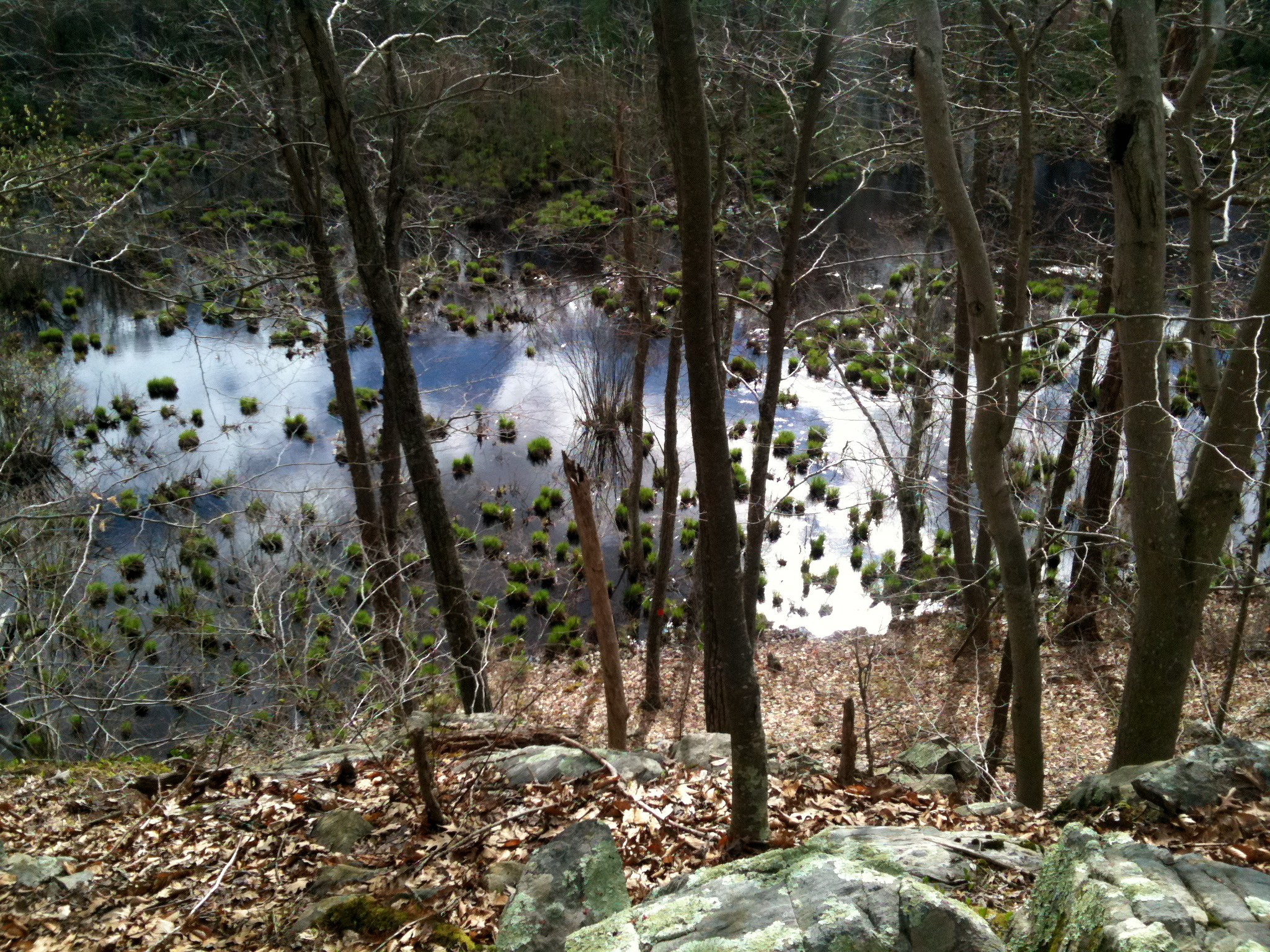 Aspetuck Valley Trail. Blue-Blazed CFPA foot path in Connecticut Centennial Watershed State Forest which connects to Huntington State Park at the northern terminus and which follows the Aspetuck River from Newtown, CT through Redding and Easton, CT. Forest bog with skunk cabbage mirroring the blue sky and clouds! In Newtown, CT along Aspetuck Valley Trail. Blue-Blazed CFPA foot path in Connecticut Centennial Watershed State Forest which connects to Huntington State Park at the northern terminus and which follows the Aspetuck River from Newtown, CT through Redding and Easton, CT.